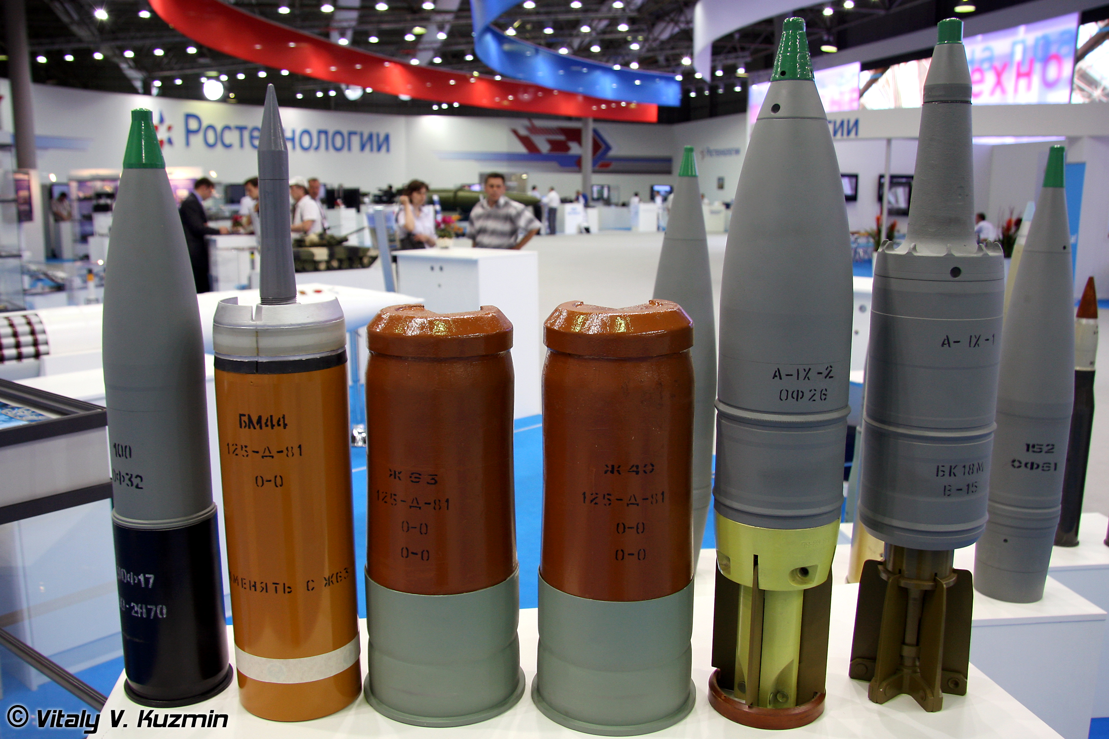 Снаряды БК18М, ОФ26, заряды Ж40 и Ж63, далее снаряды БМ44 и ОФ32 (From left to right BK18M and OF26 shells, Zh40 and Zh63 charges for shells, BM44 and OF32 shells)